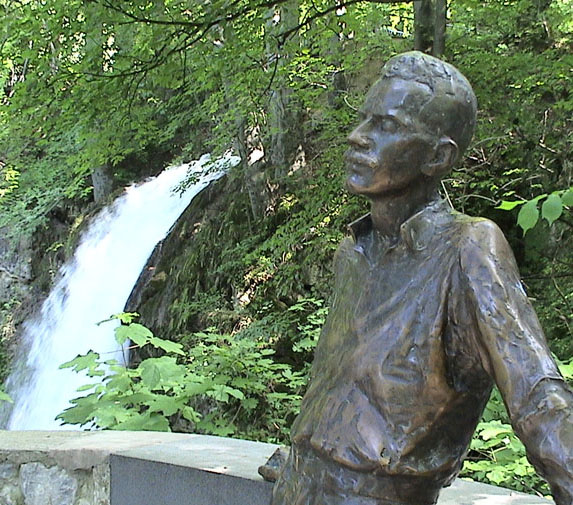 Statue – Éva Varga: Attila József, hungarian poet. Miskolc, Lillafüred, Hungary